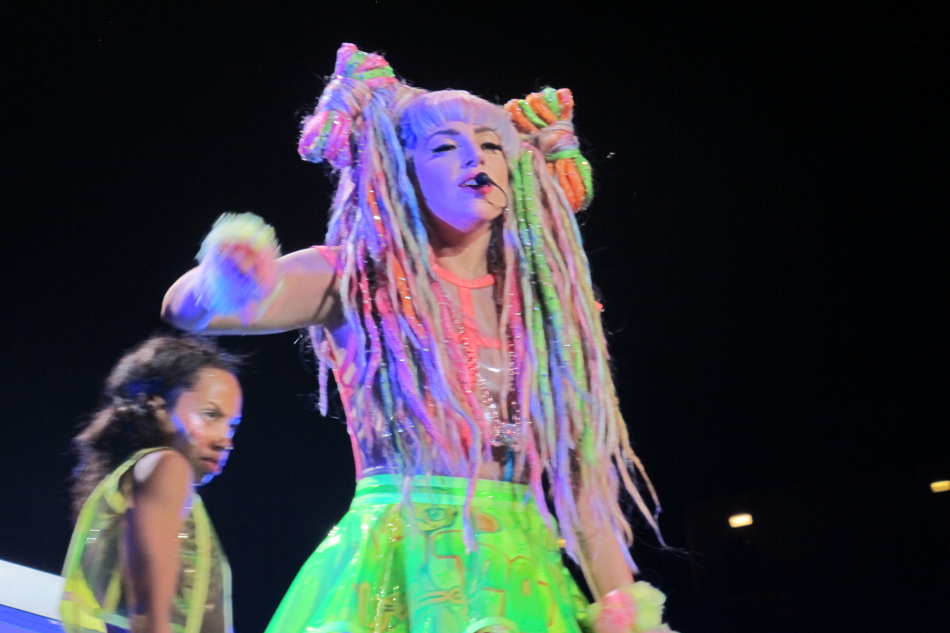 IMG_8314 Lady Gaga performing at ArtRave: The Artpop Ball of San Diego